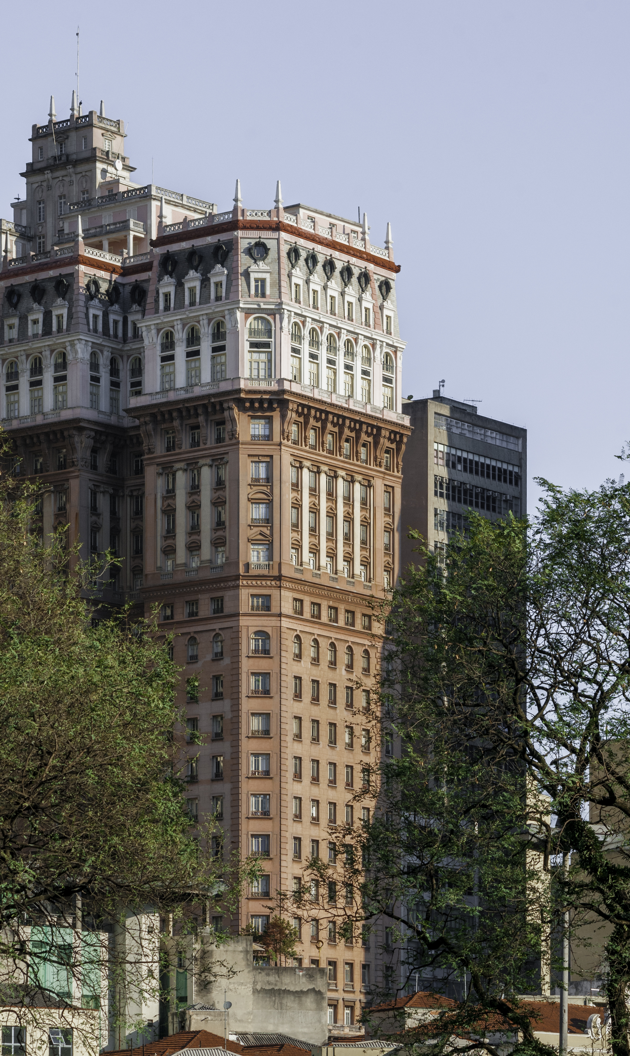 Building in São Paulo